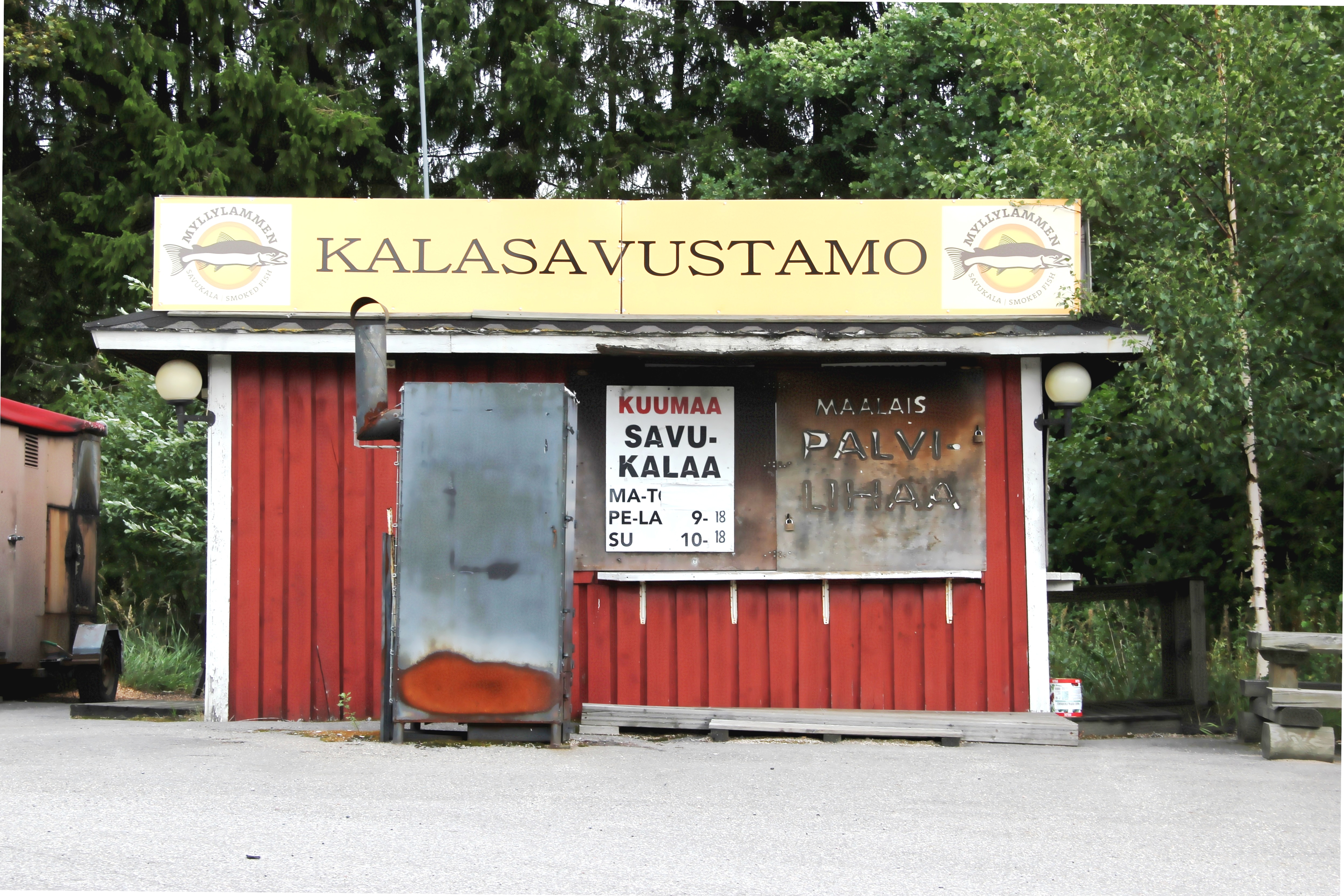 Fish smoking establishment in Vihti, Finland